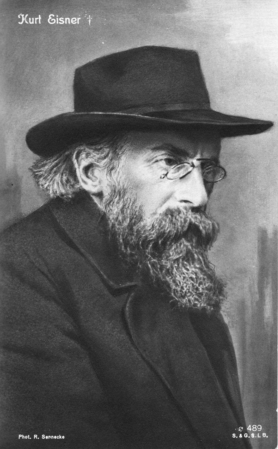 Bavarian Socialist Prime Minister Kurt Eisner